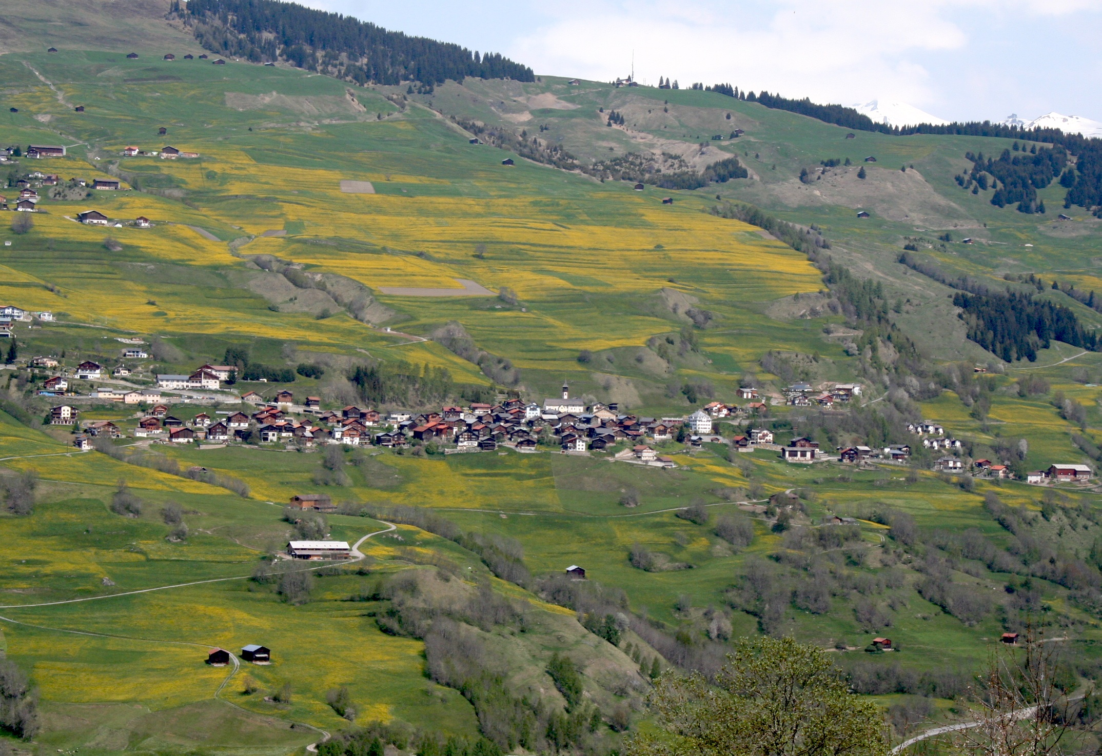 Cumbel